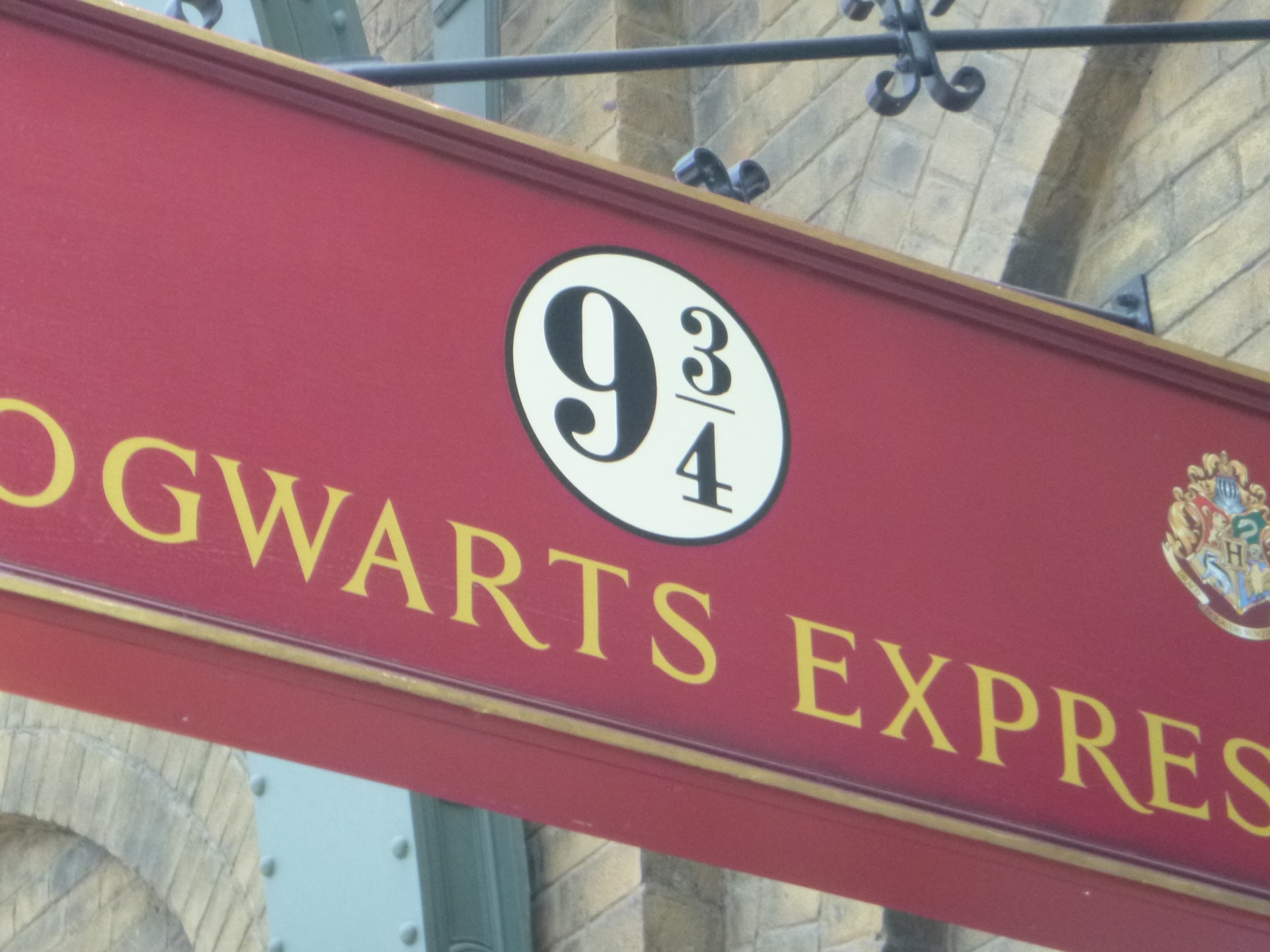 Platform 9¾ of Hogwarts Express at King's Cross station at London, Universal Studios Florida